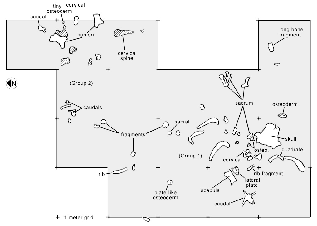 Quarry map for MOR 433, holotype of Oohkotokia horneri, gen. et sp. nov. Hatch-filled elements are cervical armour; dot-filled are post-cervical osteoderms. Grid spacing is 1 m.